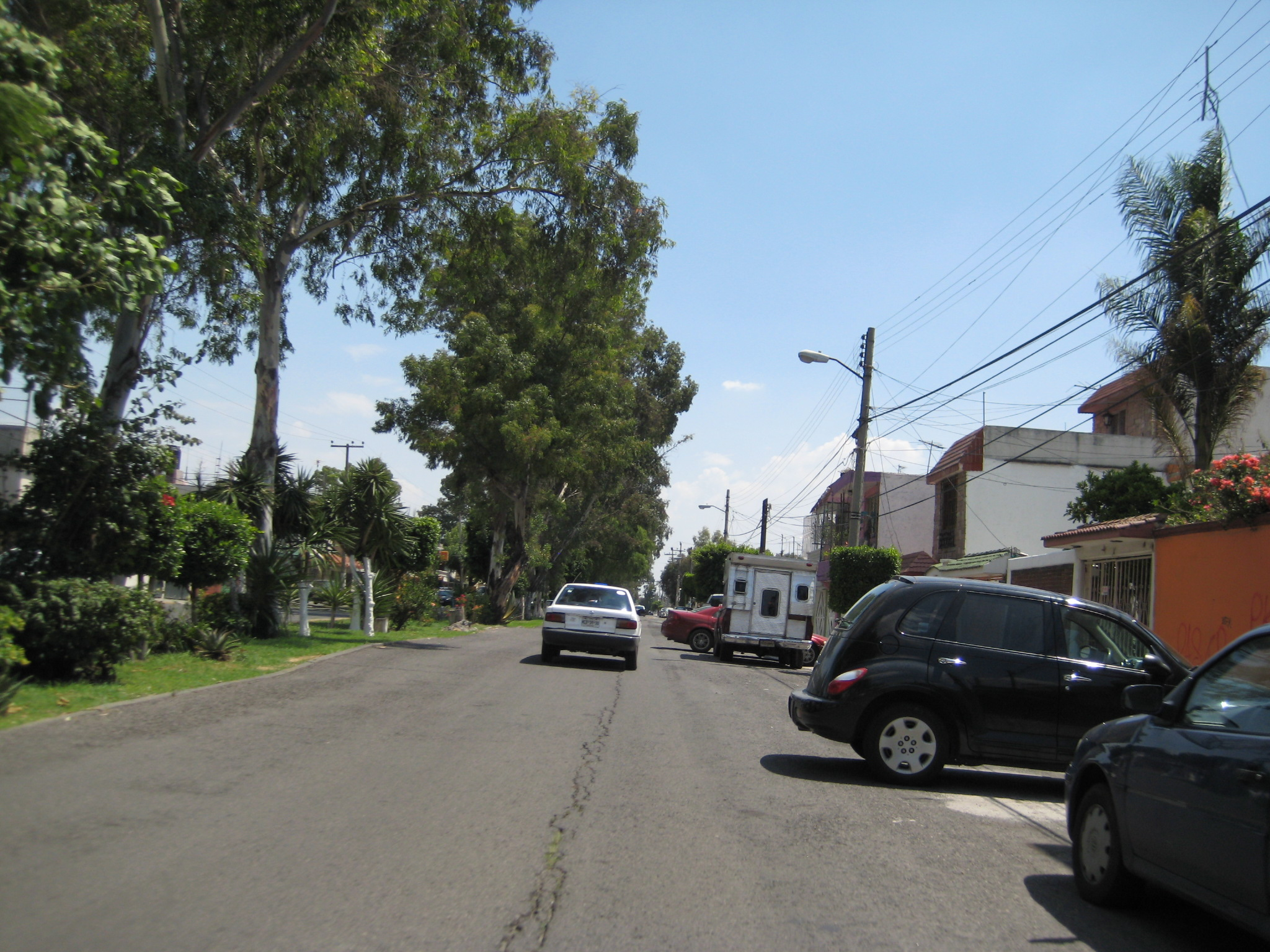 Ciudad Azteca, Ecatepec, Estado de México